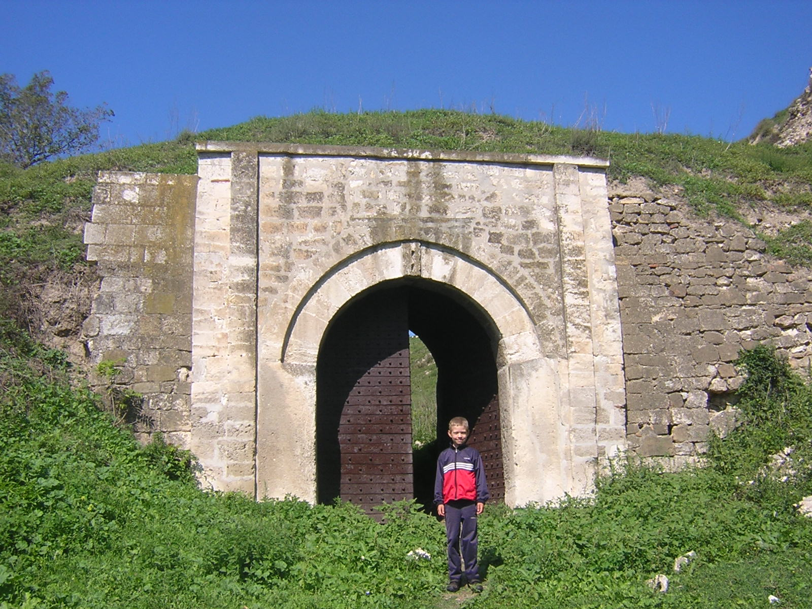 The entrance gate to the fortress at Nikopol, Bulgaria